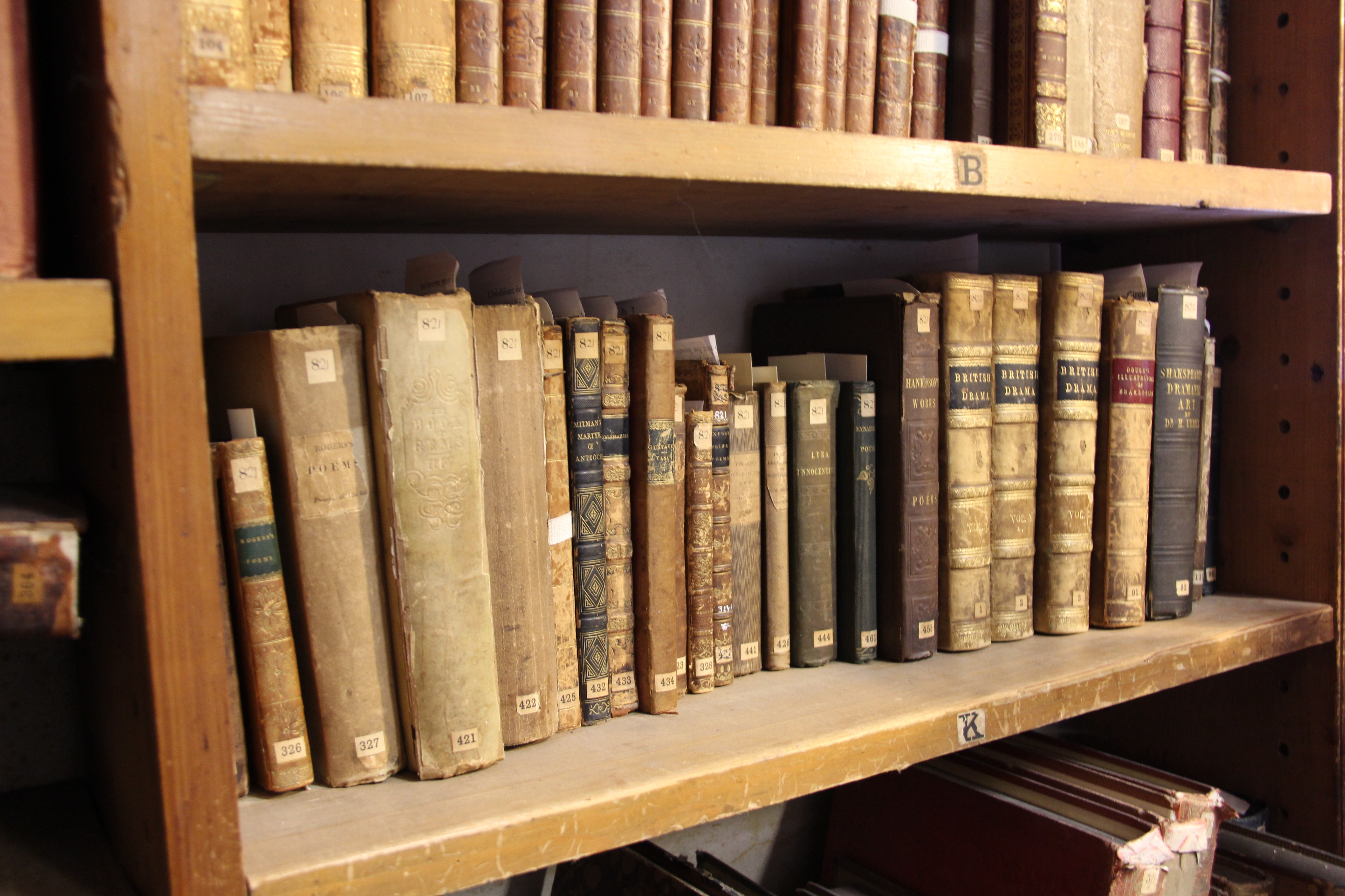 SelwynCollegeCambridge_Library_2